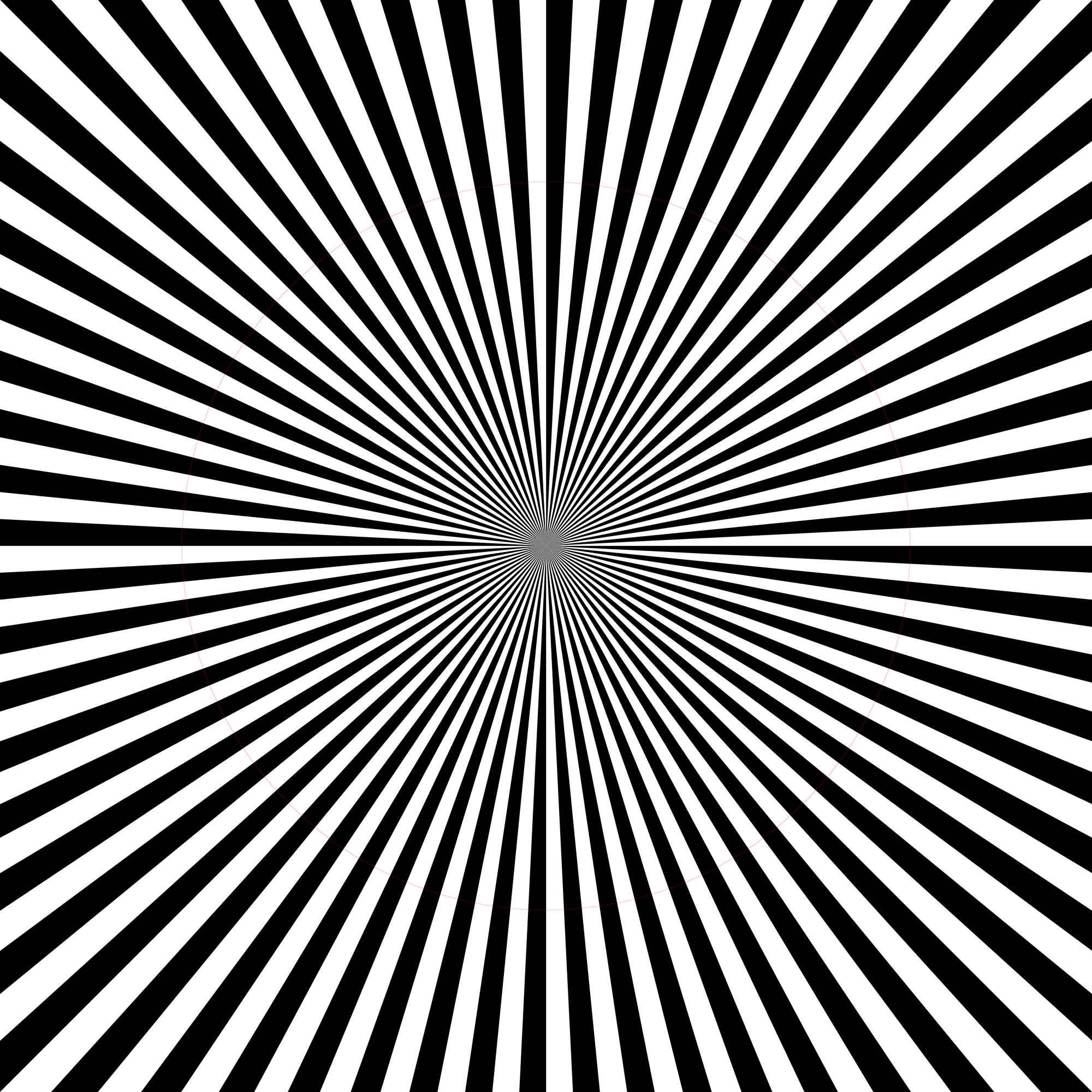 Modified binary decomposition of dynamical plane for fc(z)=z*z